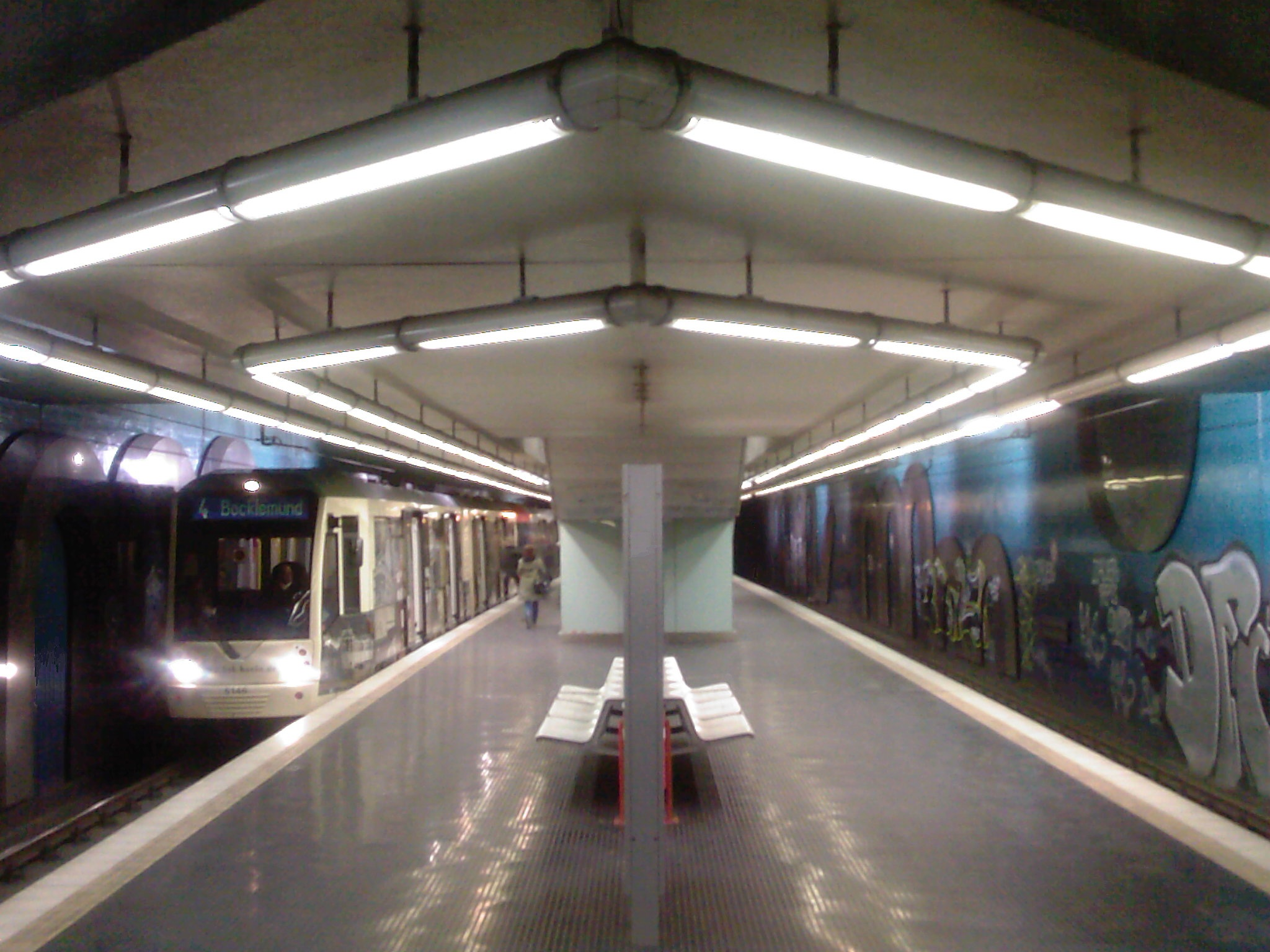 U-Bahnhof Körnerstraße, Cologne, Germany